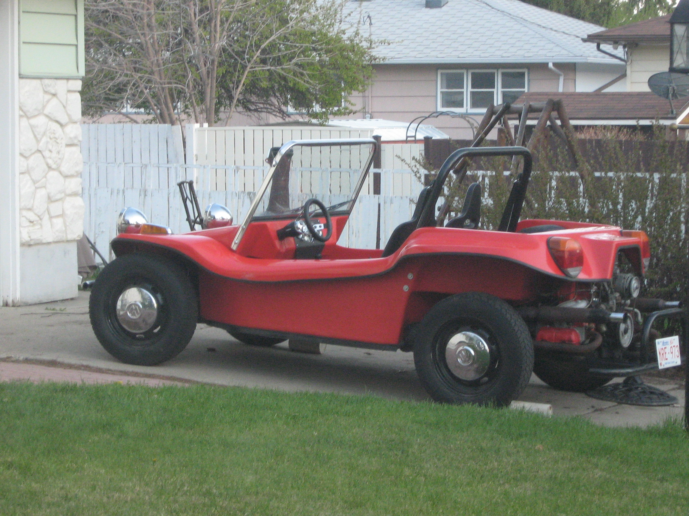 2004 Dune Buggy based on 1971 VW Beetle